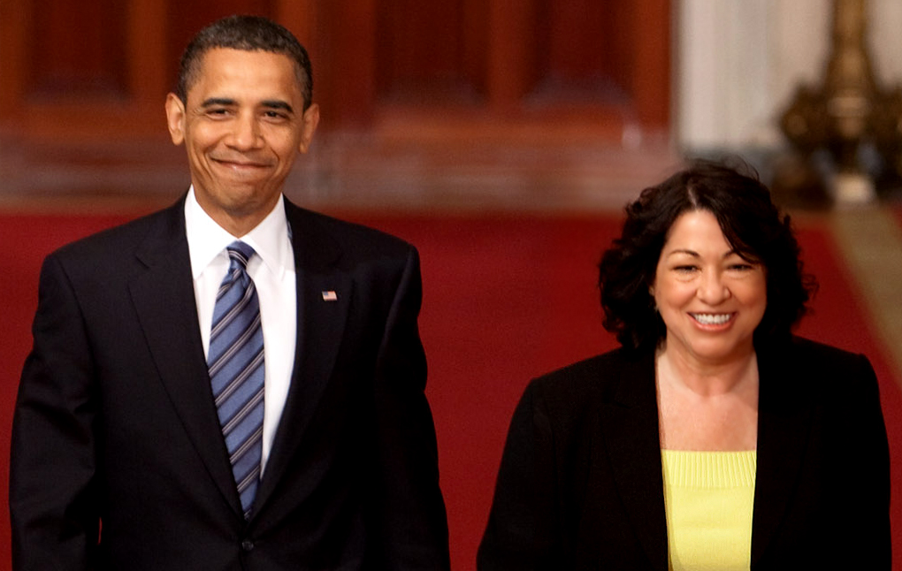 President Barack Obama with Judge Sonia Sotomayor in the East Room of the White House where the President introduced her as his nominee for the U.S. Supreme Court to replace retiring Justice David, May 26, 2009